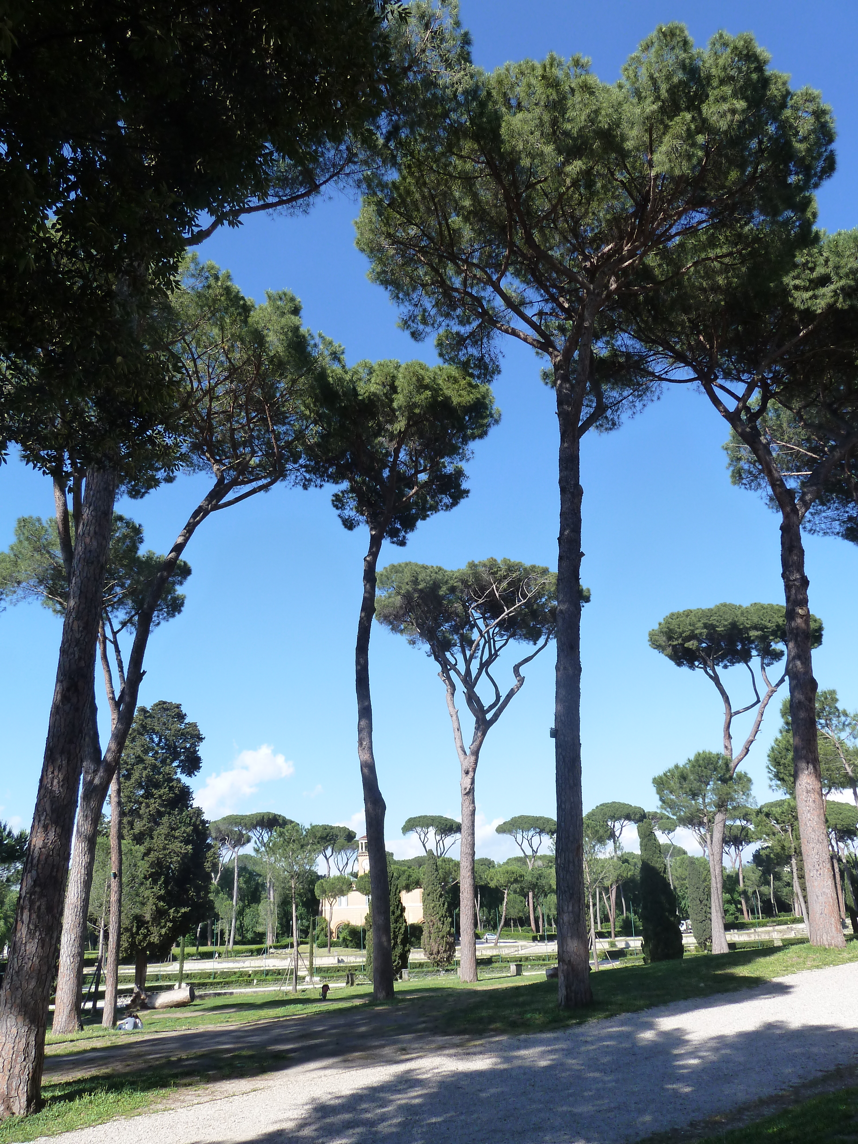 Pines.Villa Borghese,Rome